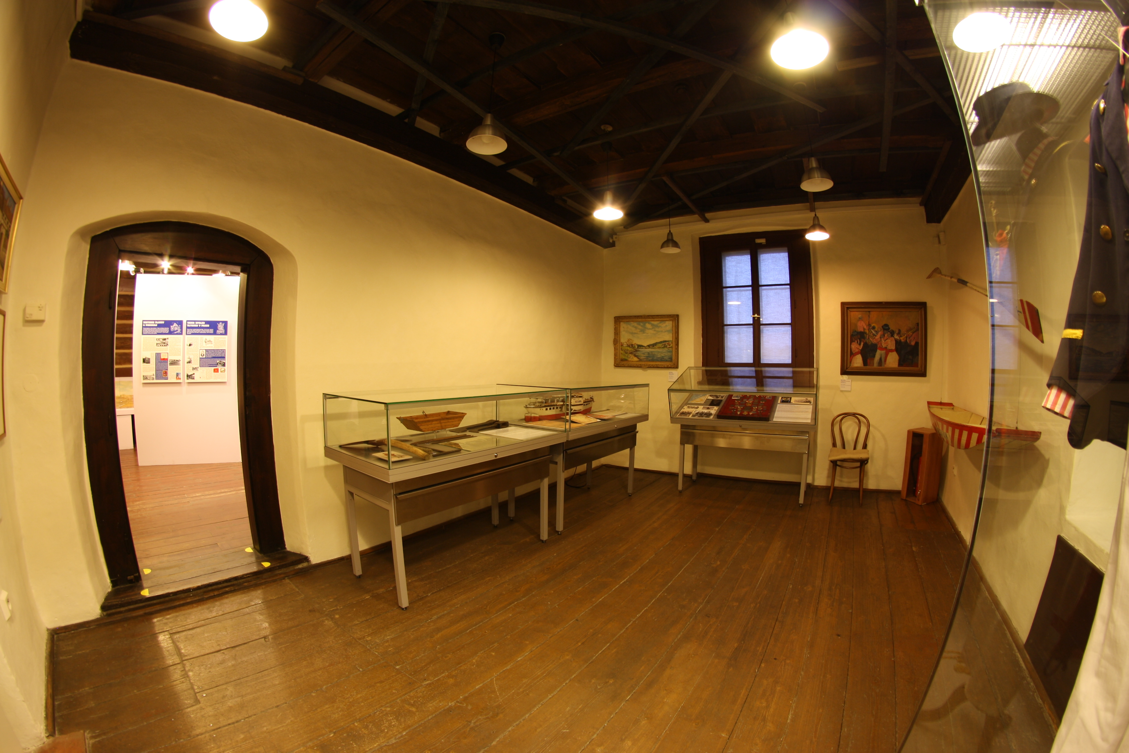 Small room of Vltavan Group Exhibition in Podskalí Custom House.